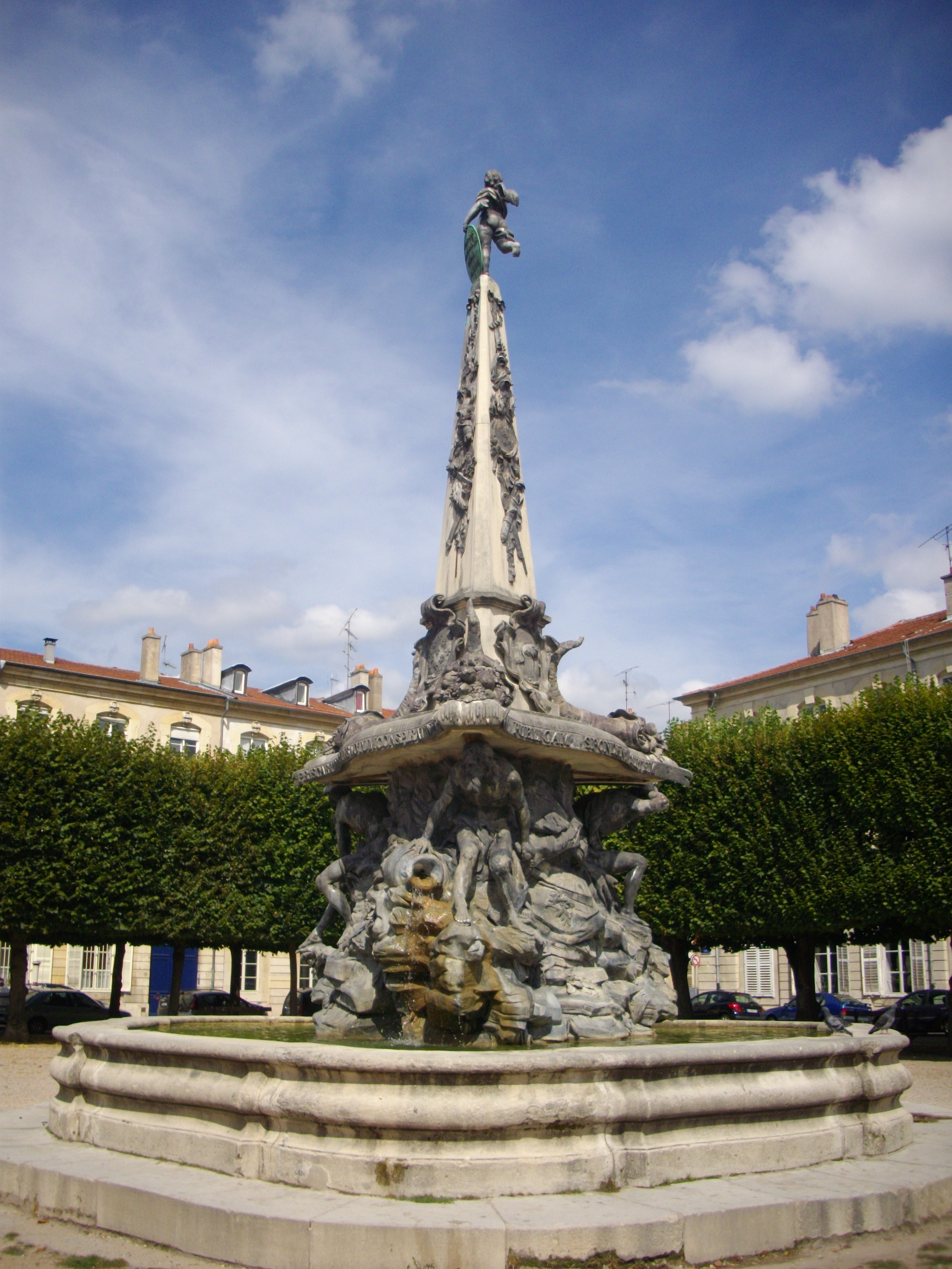 Fountain on Alliance square in Nancy (Meurthe-et-Moselle, France) .